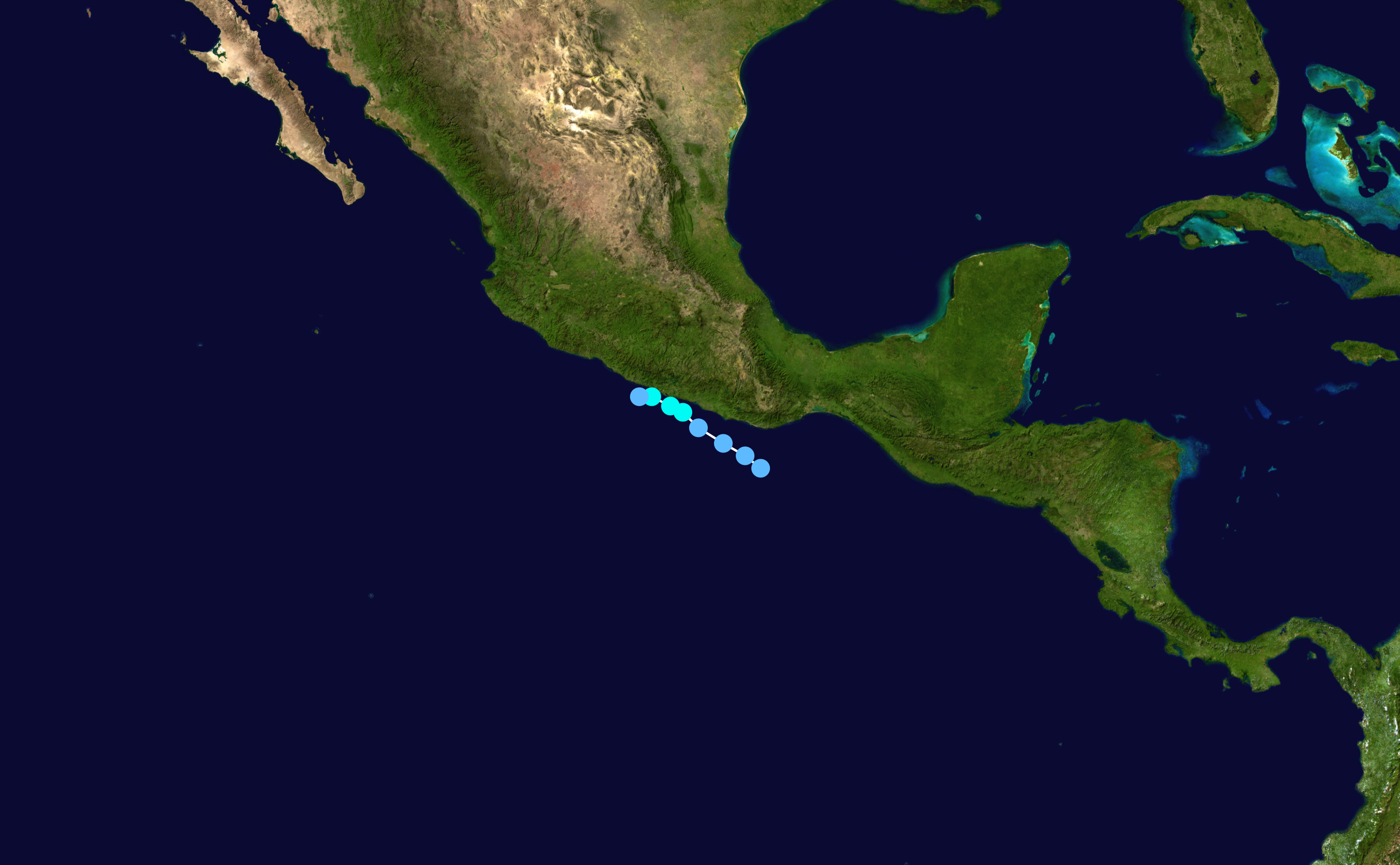 Tropical Storm Lester (2004) track. Uses the color scheme from the Saffir-Simpson Hurricane Scale.